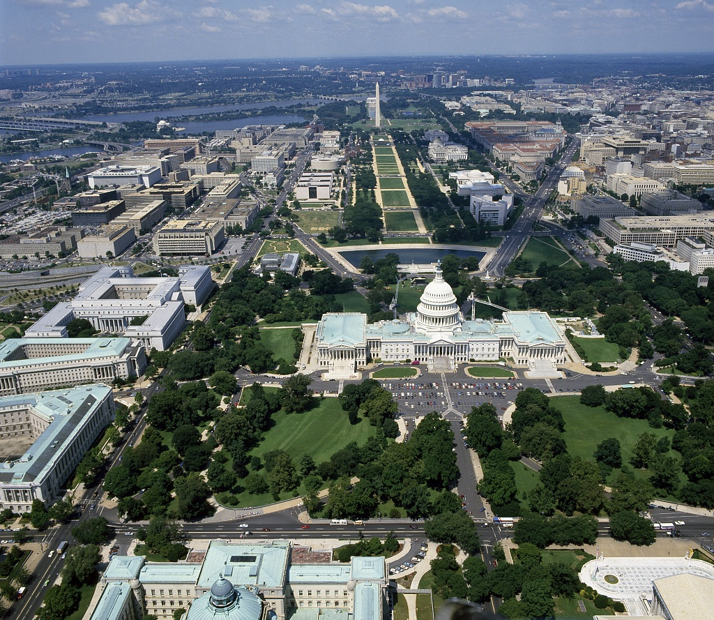 Aerial view of National Mall, with the U.S. Capitol in the foreground and Washington Monument in the distance, Washington, D.C.